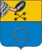 Kem (Karelia), coat of arms (1788)